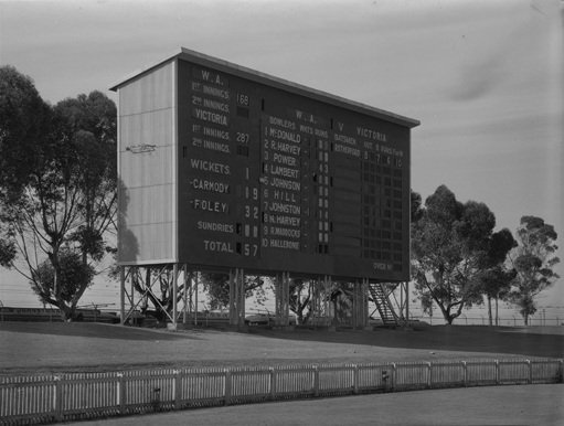 The WACA scoreboard for a match W.A. vs Victoria, 21 Dec. 1953.